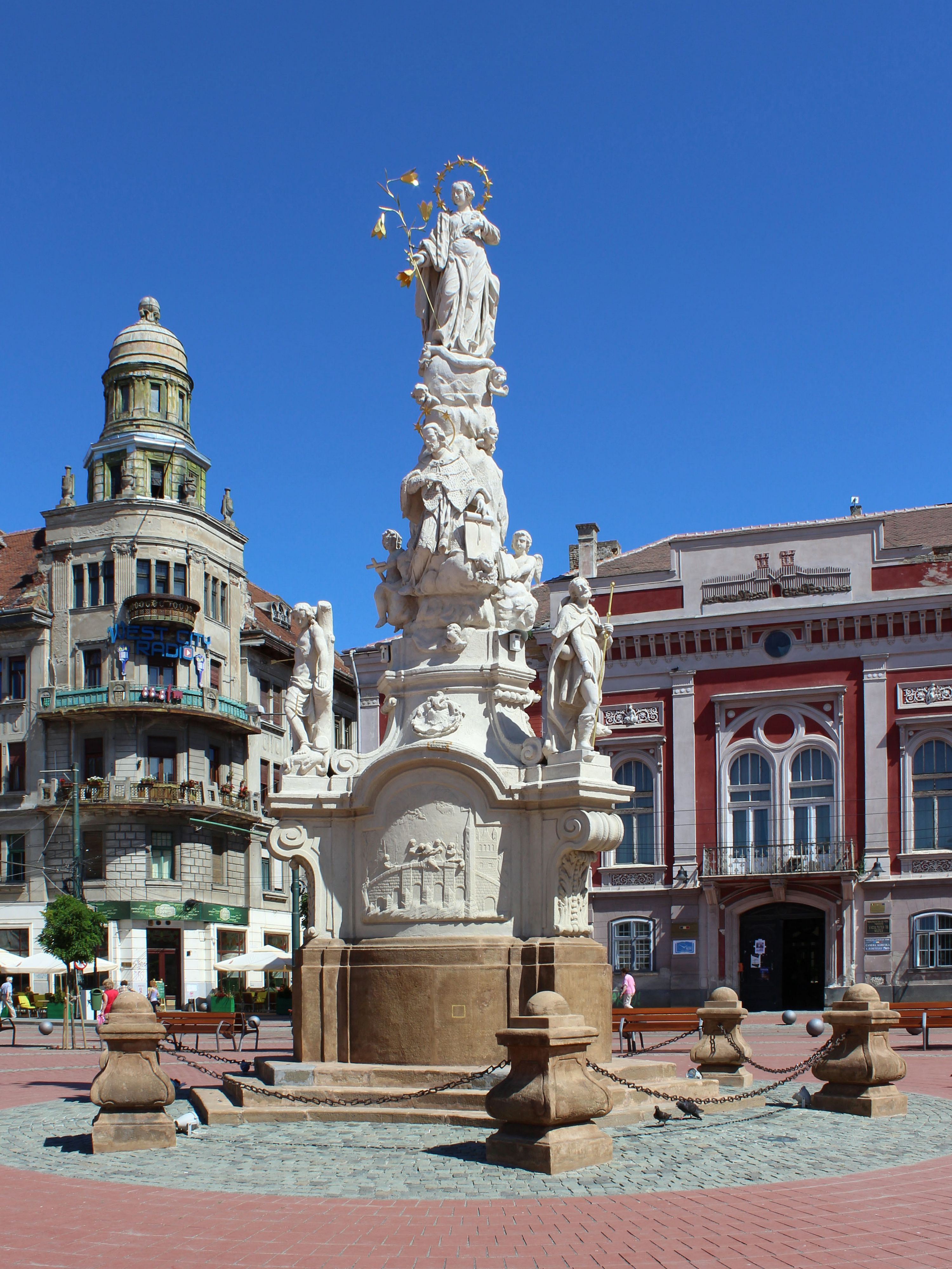 Monument of St. Mary and St. John Nepomuk, Libertății Square, Timisoara, Romania, after its rehabilitation in 2015.[1] Carried out 1753–1756, in F. Blim's and E. Wasserburger's Viennese workshop.